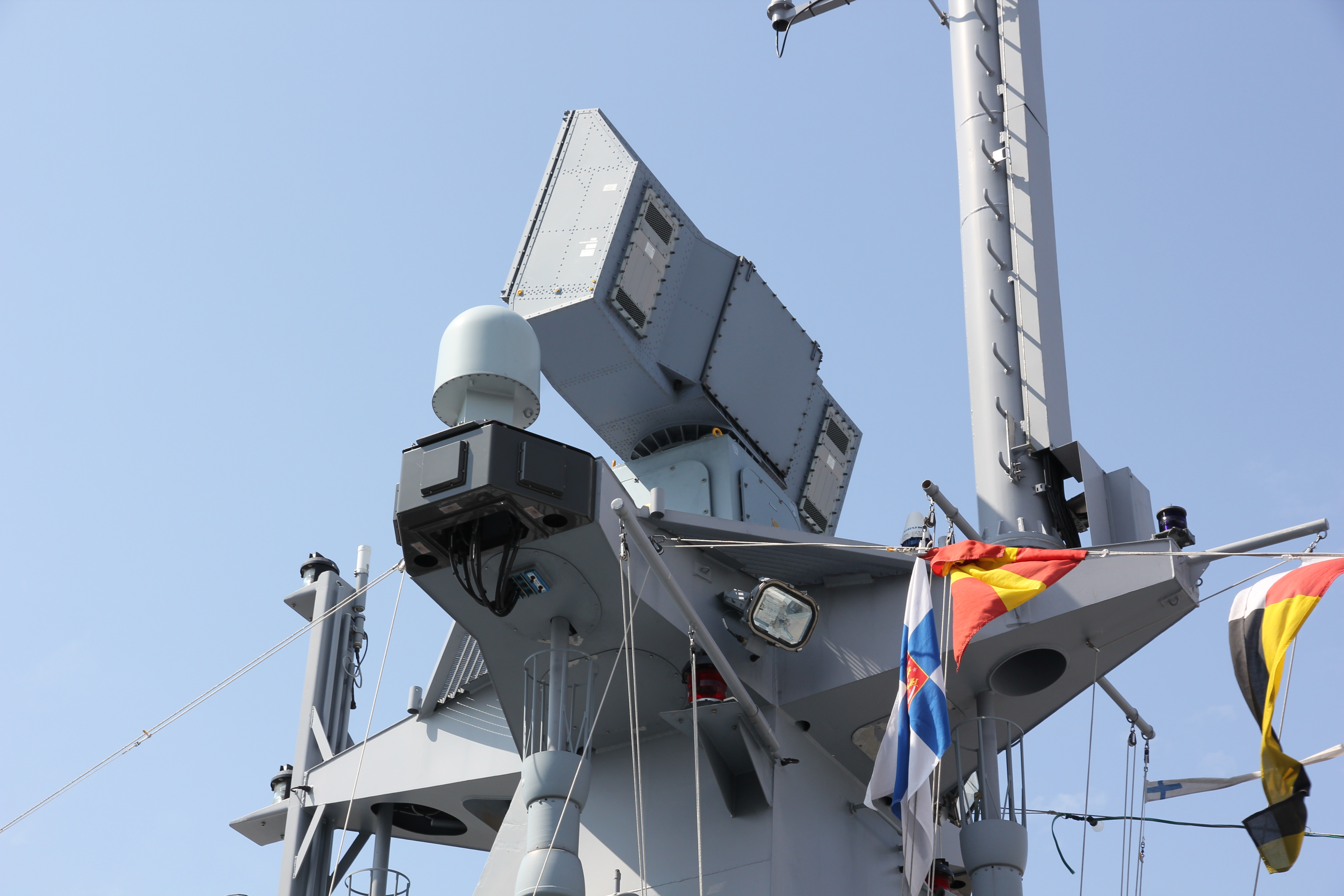 Finnish minelayer Uusimaa TRS-3D/16-ES target acquisition radar. Photographed during Finnish Navy 2011 anniversary in Turku.